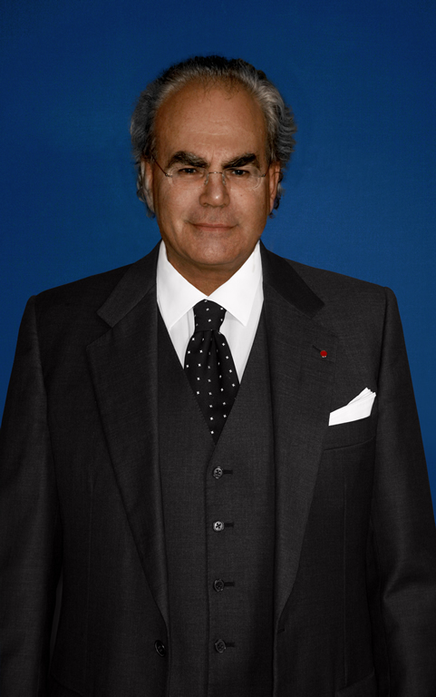 File for Upload to Carlo Pelanda's personal wikipedia page.